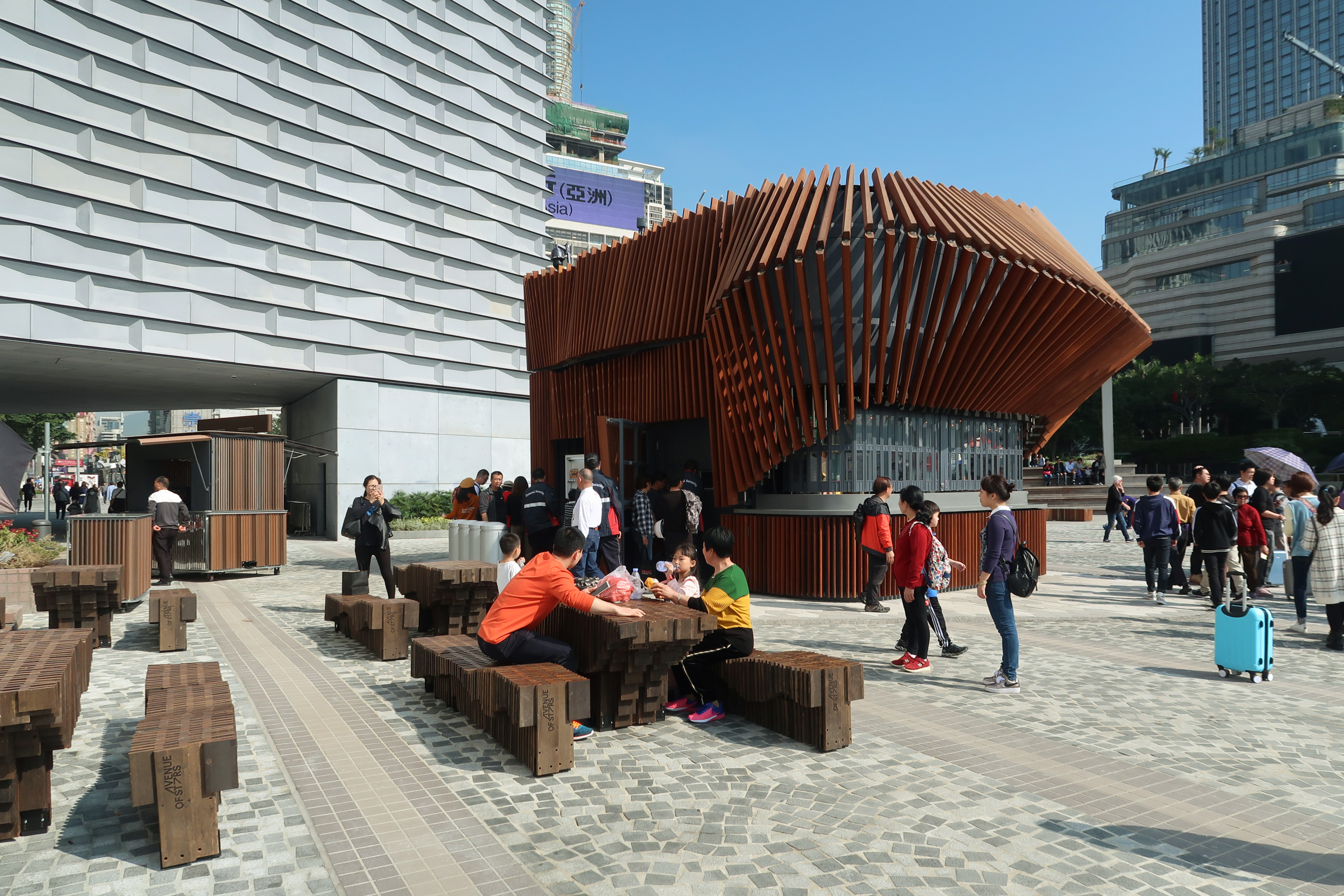 Avenue of Stars Laab snack bar